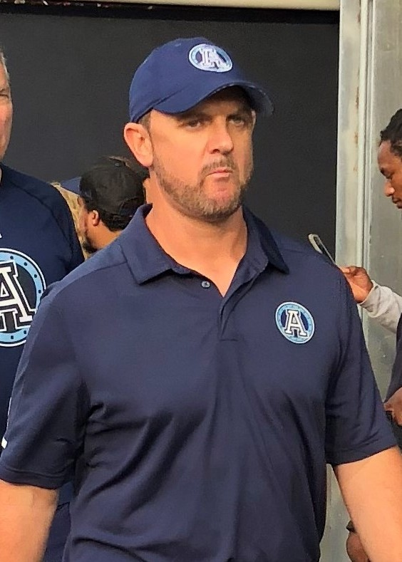 Kevin Eiben, Special Teams Coordinator for the Toronto Argonauts.